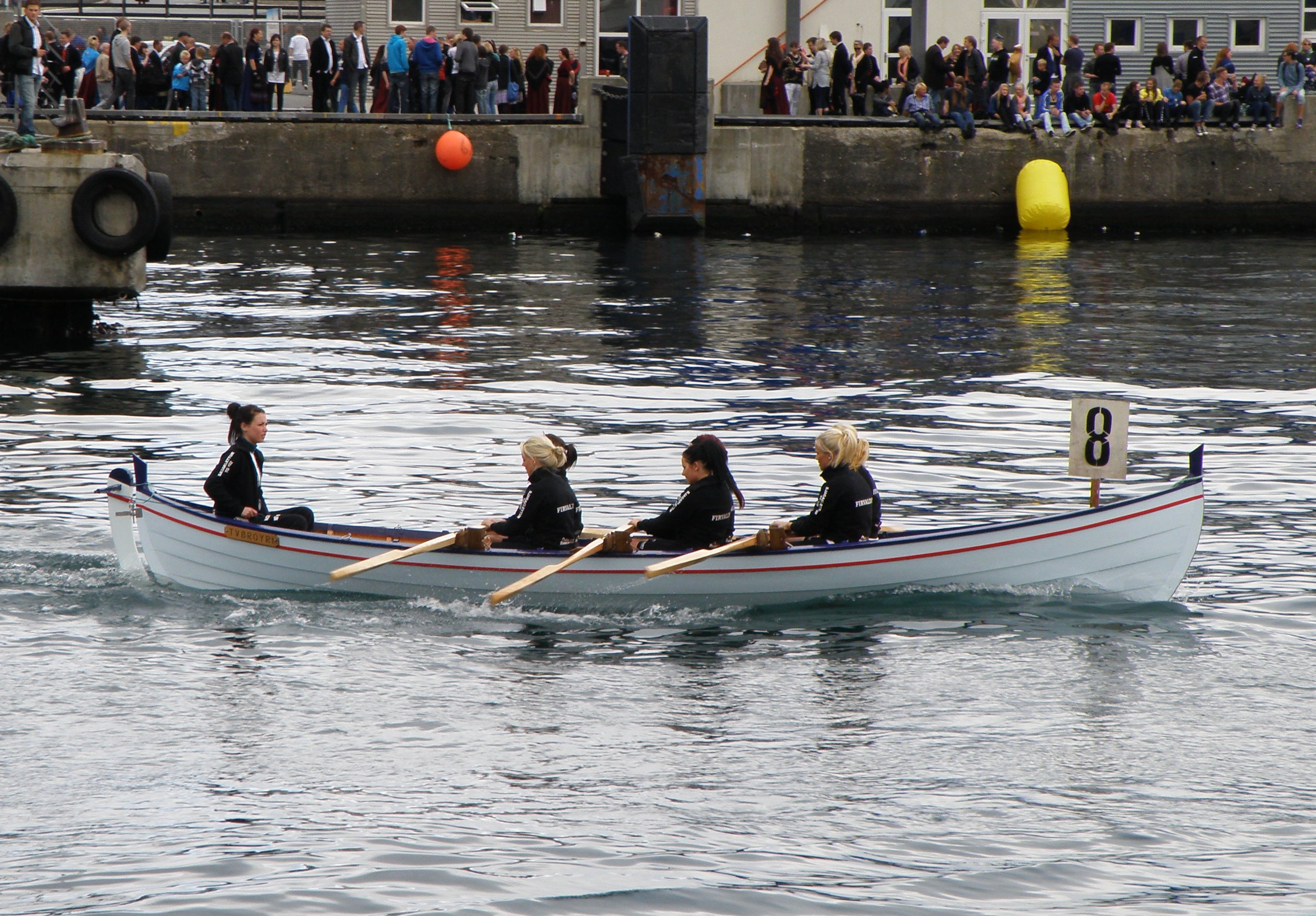 Firvaldur is a wooden Faroese rowboat from Tvøroyri in Suðuroy, Faroe Islands. The boat is a so-called 5-mannafar. This photo is taken in Tórshavn at the Ólavsøka festival, which is the national holiday of the Faroe Islands. It is tradition to have rowing competitions at the Eve of Ólavsøka, which is on 28 July. This photo was taken on 28 July 2010. These girls are on their way to the start point of the rowing competition. Føroyskt: Firvaldur er 5-mannafar av Tvøroyri. Froðbiar Sóknar Róðrarfelag eigur bátin. Henda myndin varð tikin á Ólavsøku 2010.